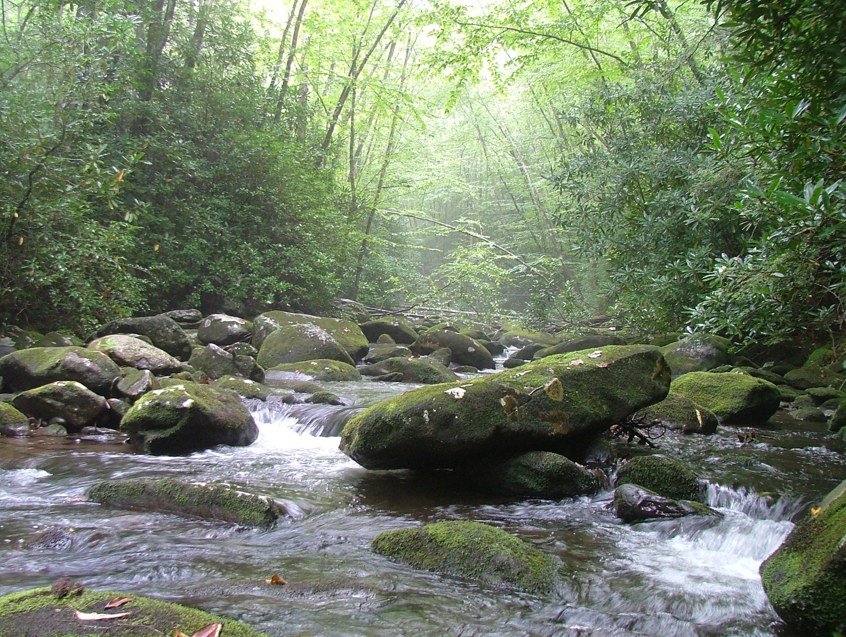 South Fork of Citico Creek located in Citico Creek Wilderness, within the Cherokee National Forest in Monroe County, Tennessee.